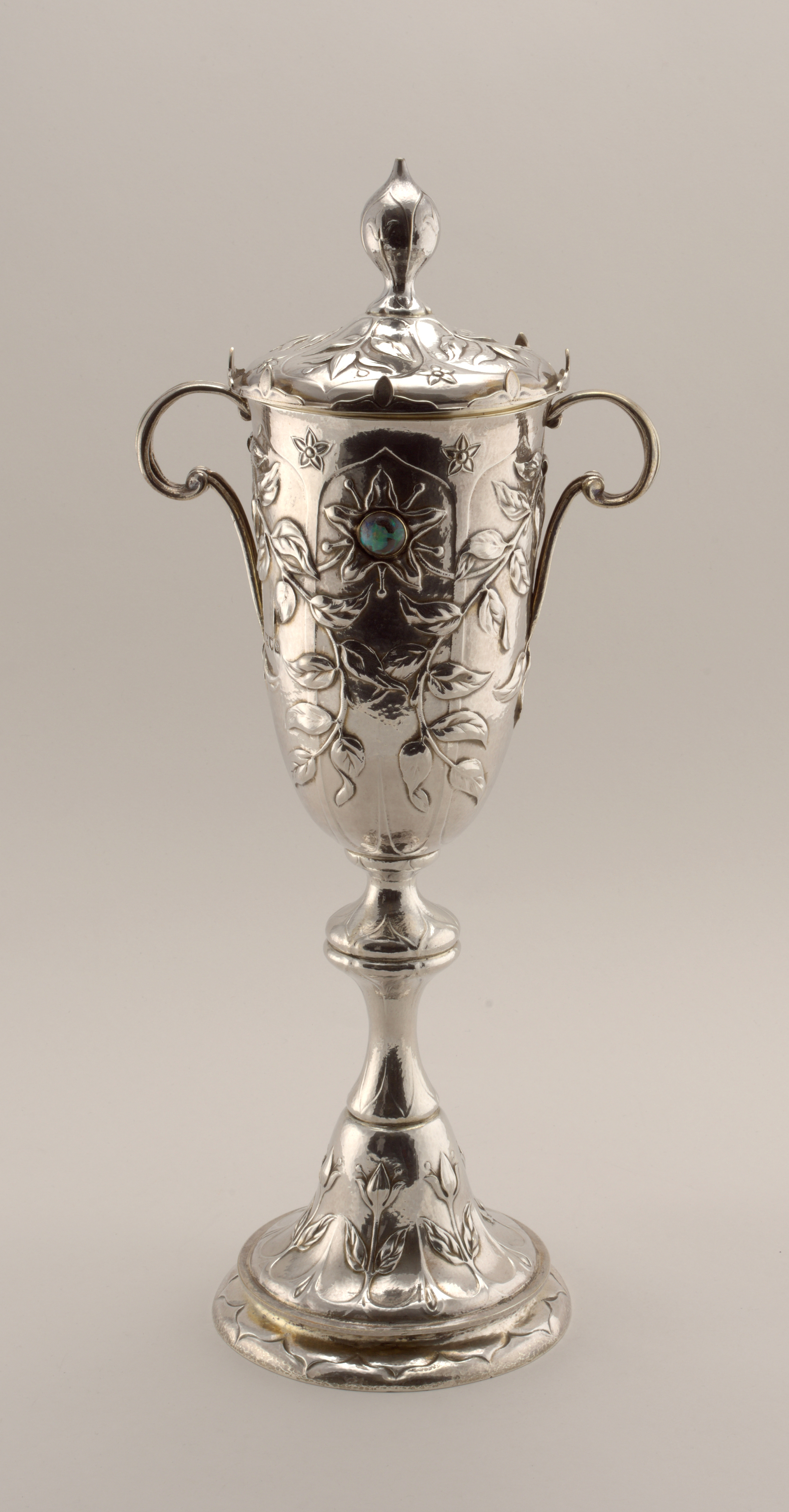 Tall cup (a) and cover (b). Trumpet-shaped circular foot embossed with ogee pattern at edge; above, a strip of embossed upright scallops and six upright tulips. Waisted stem with large double-cushion knop. Ovoid body chased with symmetrical vines within ogee arches. Center of both sides with large blossoms centered with bezel-set opal. Reeded scroll handles attached at lip and terminating at lower juncture with leaves. Cover (b) slightly domed, embossed with reverse ogee curves and blossoms pointing downward. At center, an ovoid finial with upright ogee curves and flowers. Interior of cup and cover gilded.